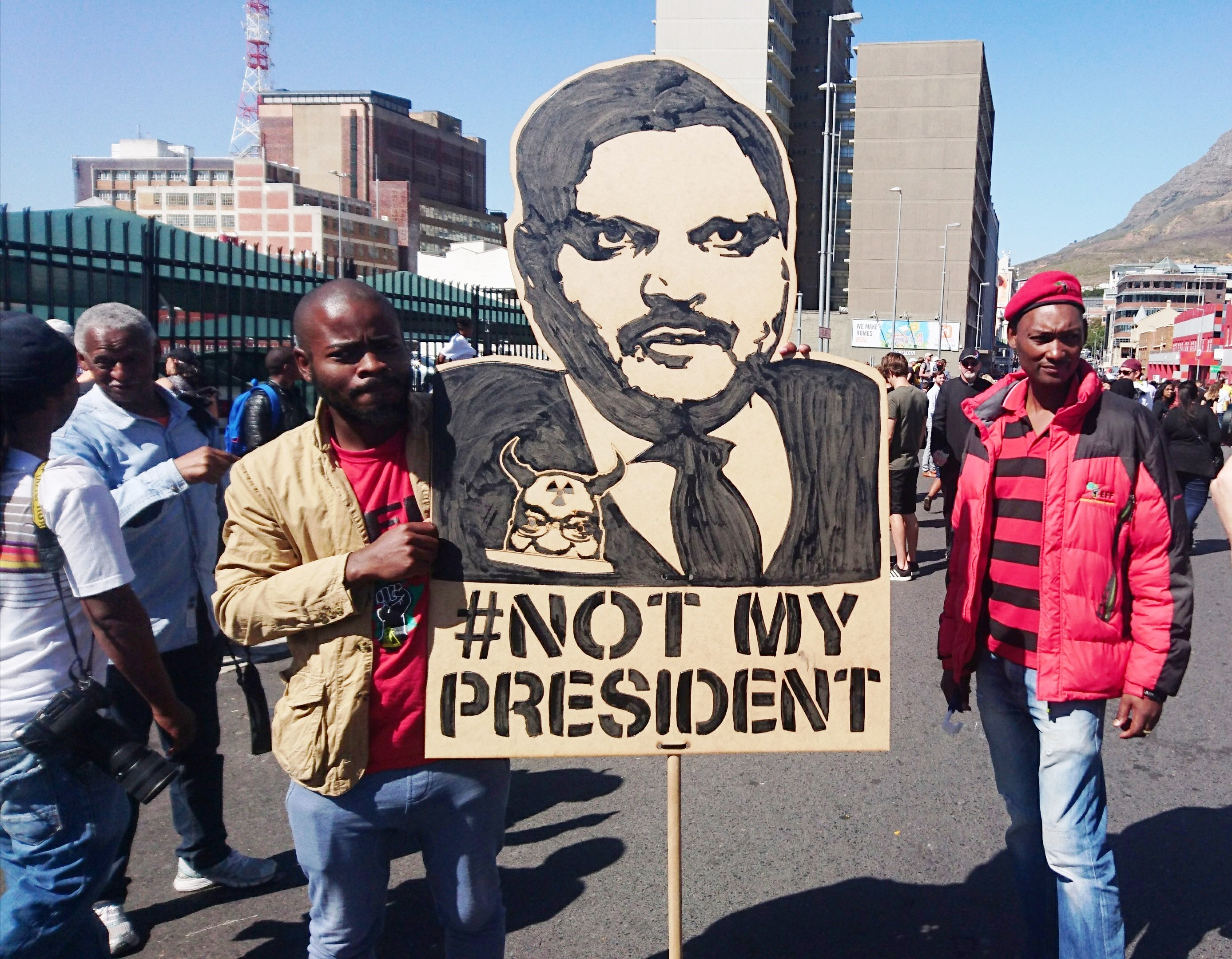 A protest placard of Atul Gupta carried by two EFF members on either side of it at the Zuma Must Fall protests in Cape Town.